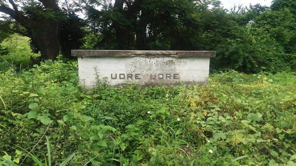 Burial ground of the Guinness World Record holder for "most prolific cannibal"